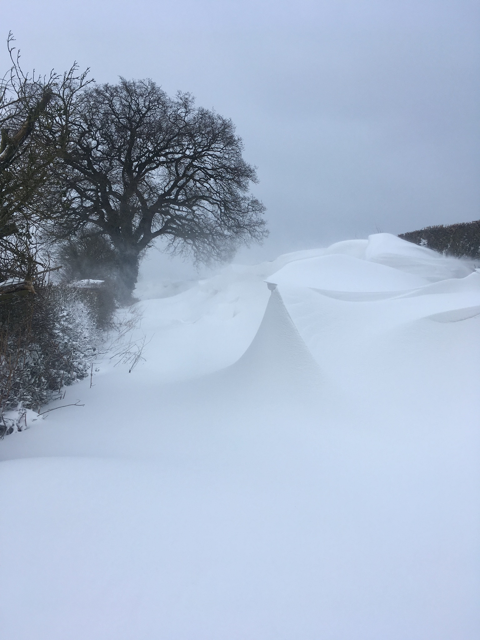 A photograph of heavy snowfall at Hidcote Bartrim, Gloucestershire in March 2018